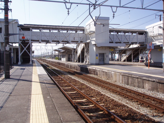 West Japan Railway Sanyo Main Line and Ako Line Higashi-okayama Station Platform 西日本旅客鉄道 山陽本線・赤穂線 東岡山駅駅ホーム